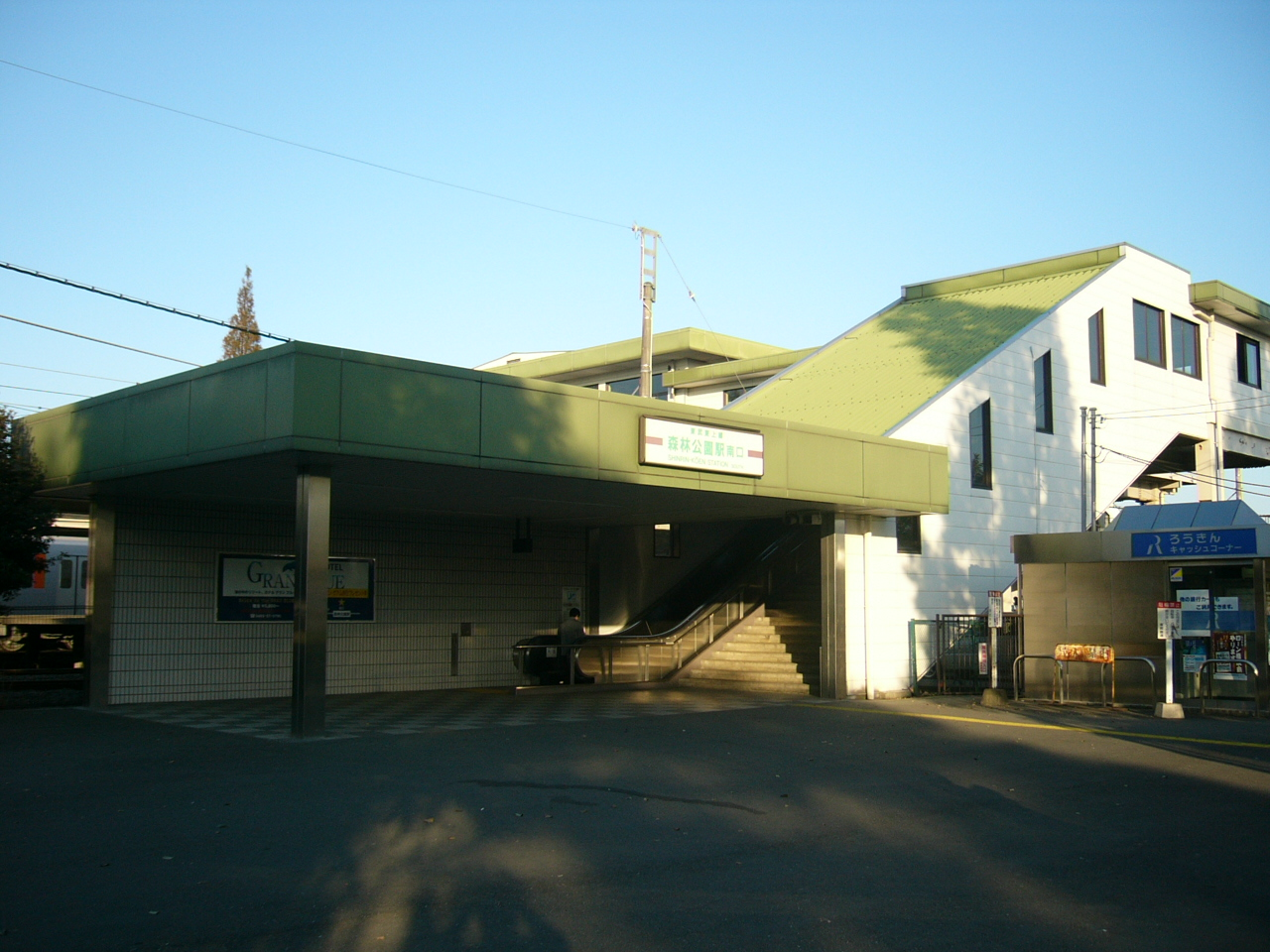 The south entrance of Shinrin-koen Station on the Tobu Tojo Line